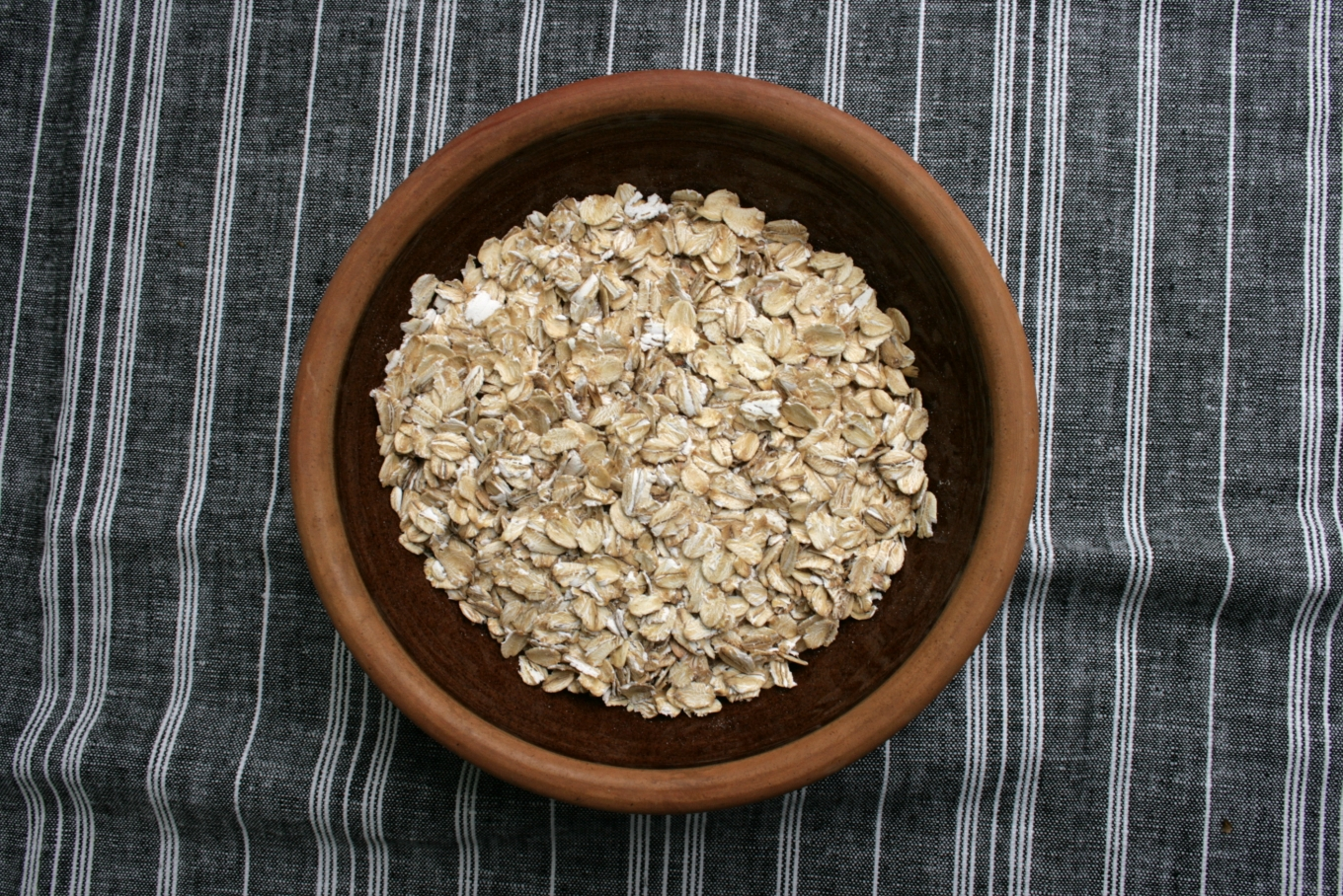 Oatmeal directly from the packing.